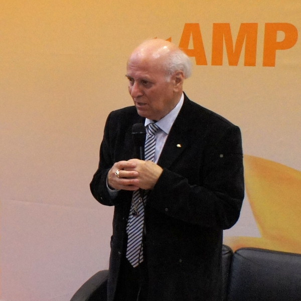 Moscow International Book Fair 2011. Teacher and author Shalva Amonashvili speaks.